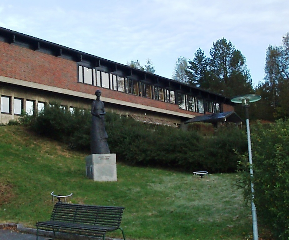 Sørmarka in Ski kommune, Akershus, Norway. Conference center of the Norwegian Labour Organization, LO.